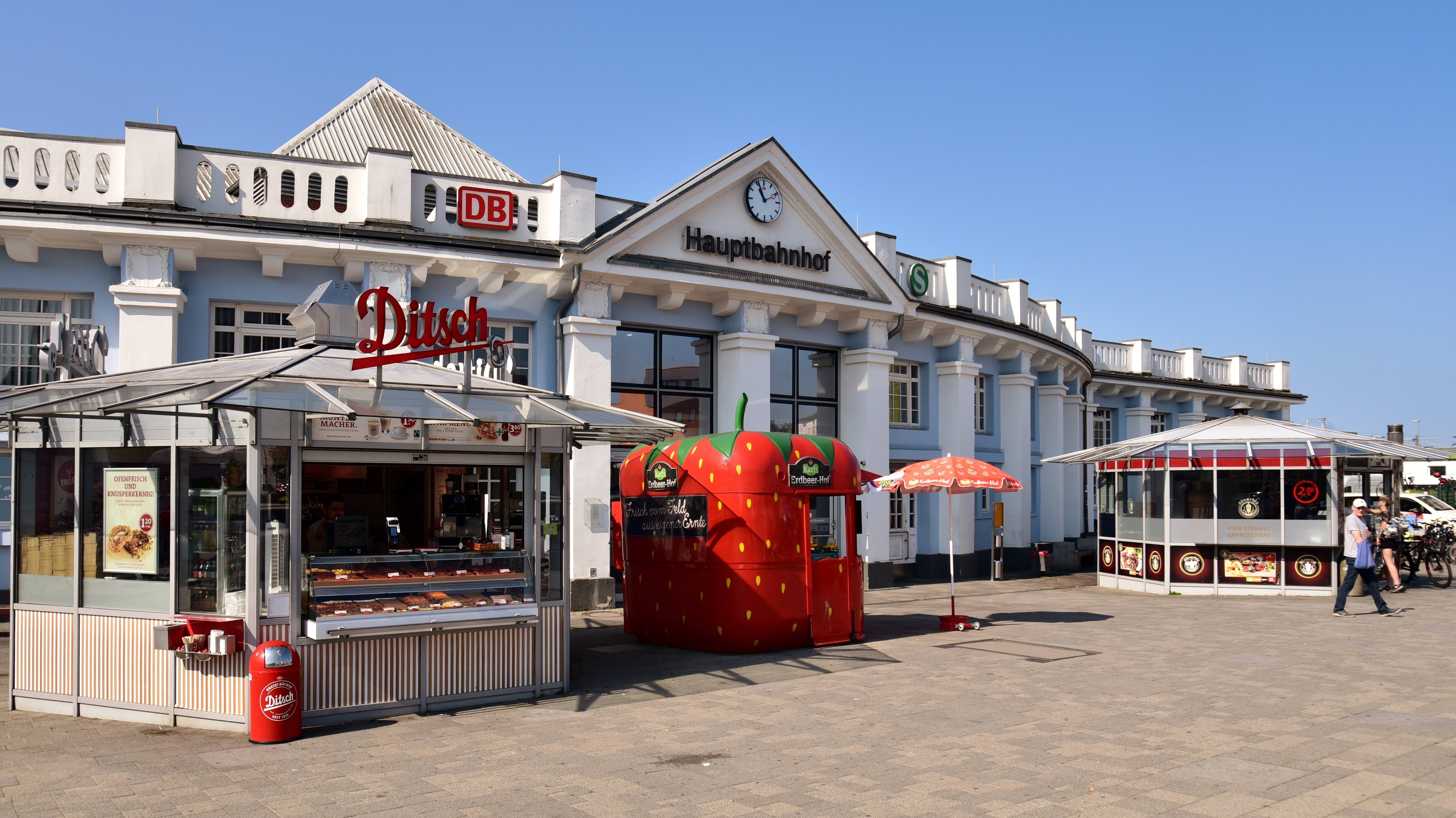 External view of the station building at Rostock Hauptbahnhof